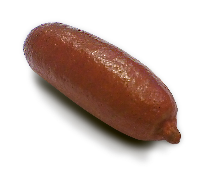 A whole red citrus australasica.